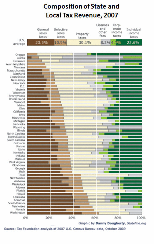 Break down of state and local tax revenues by six sources for each state (as well as for the U.S. average): General Sales Taxes, Selective Sales Taxes (e.g., taxes on gasoline, alcohol, and cigarettes), Property Taxes, Licenses and Other Fees, Corporate Income Taxes, Individual Income Taxes.